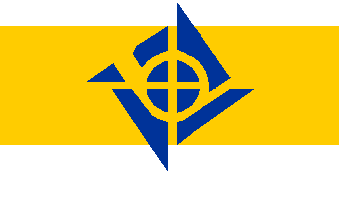 Flag of Åland Post Office